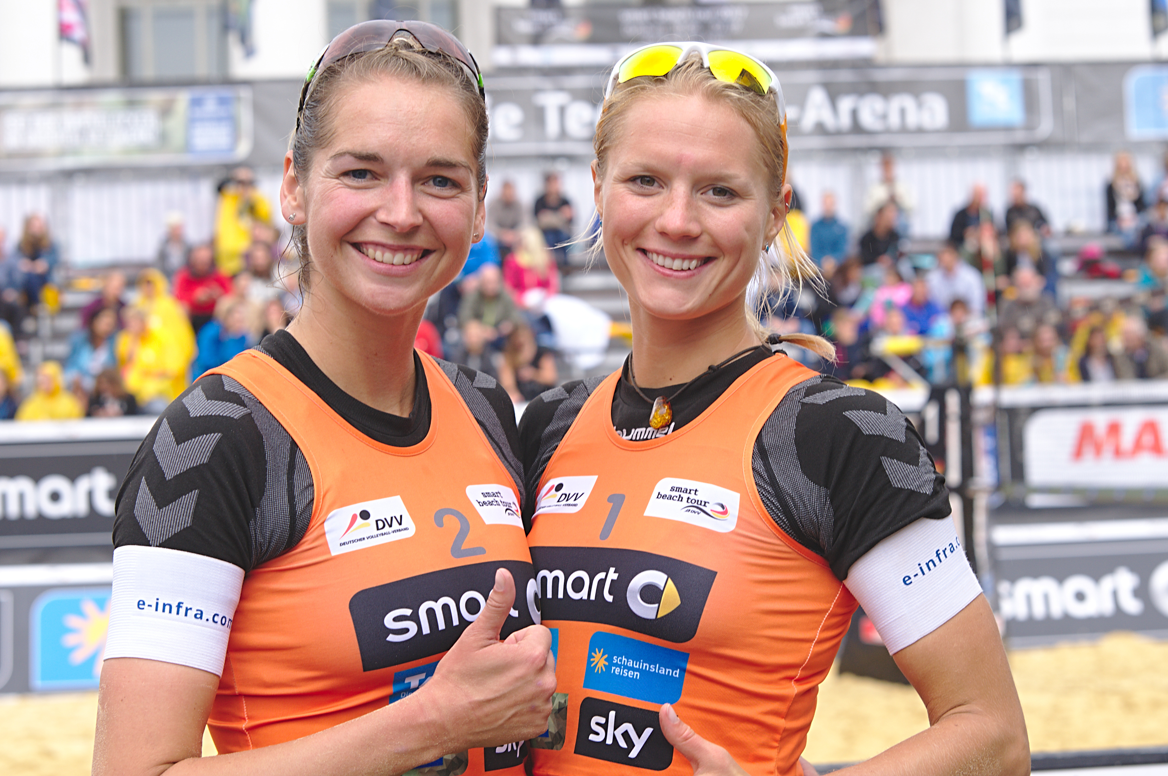 The German beach volleyball players Anni Schumacher (left) und Kim Behrens (right) at the Smart Beach Tour tournament in Duisburg 2017.